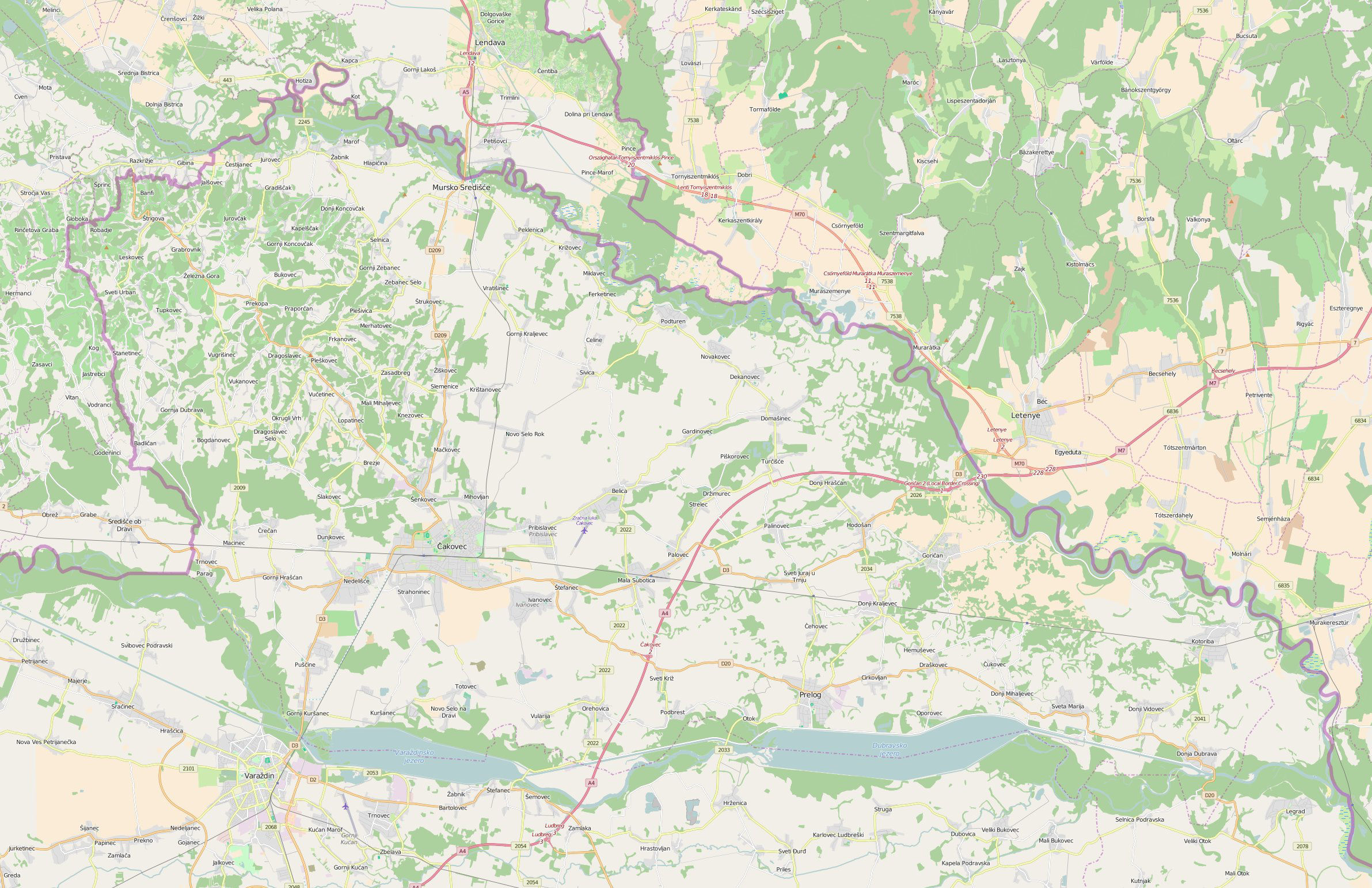 This map ofMeđimurje County was created from OpenStreetMap project data, collected by the community. This map may be incomplete, and may contain errors. Don't rely solely on it for navigation.